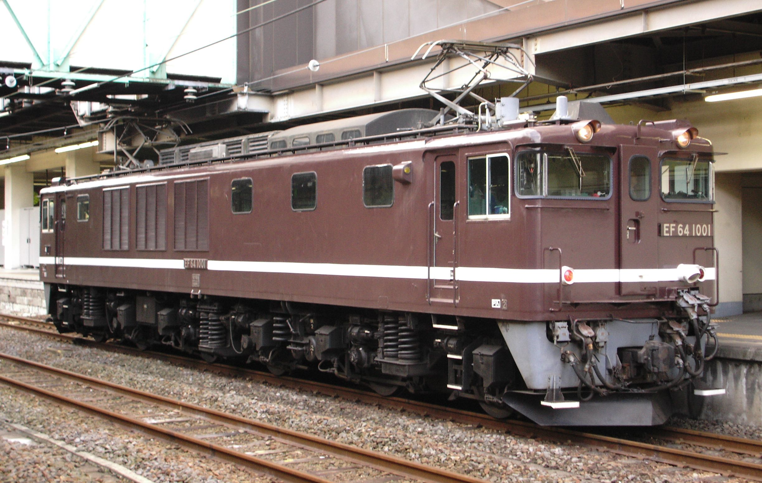 JR East Class EF64-1000 electric locomotive EF64-1001 at Takasaki Station